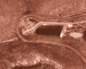 Horseshoe Curve © 2004 Matthew Trump, color enhancement of USGS satellite photo